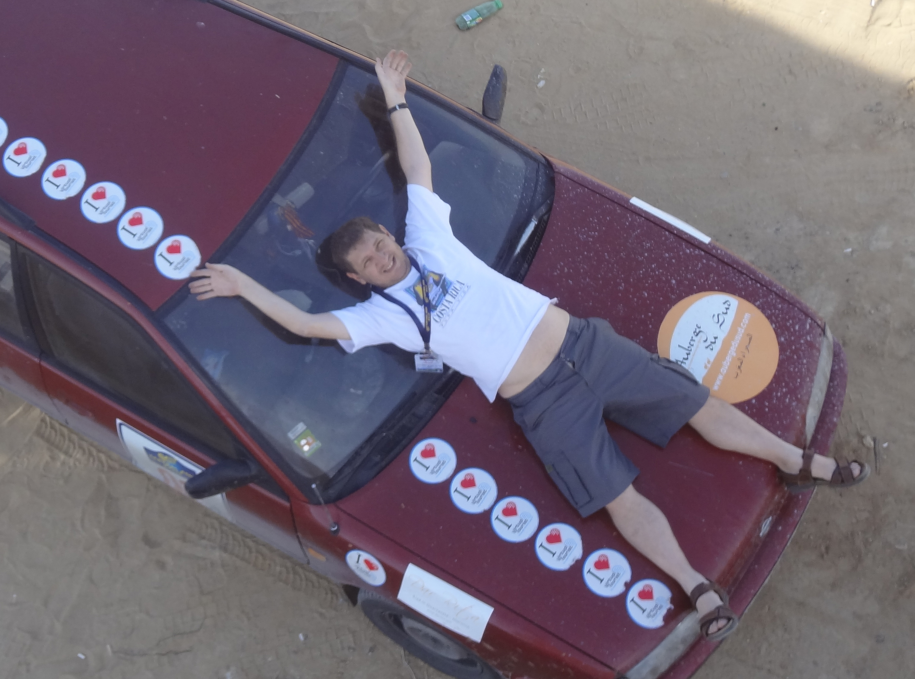 Photo of João Paulo Peixoto on top of his team's car during Central Asia Rally 2012.